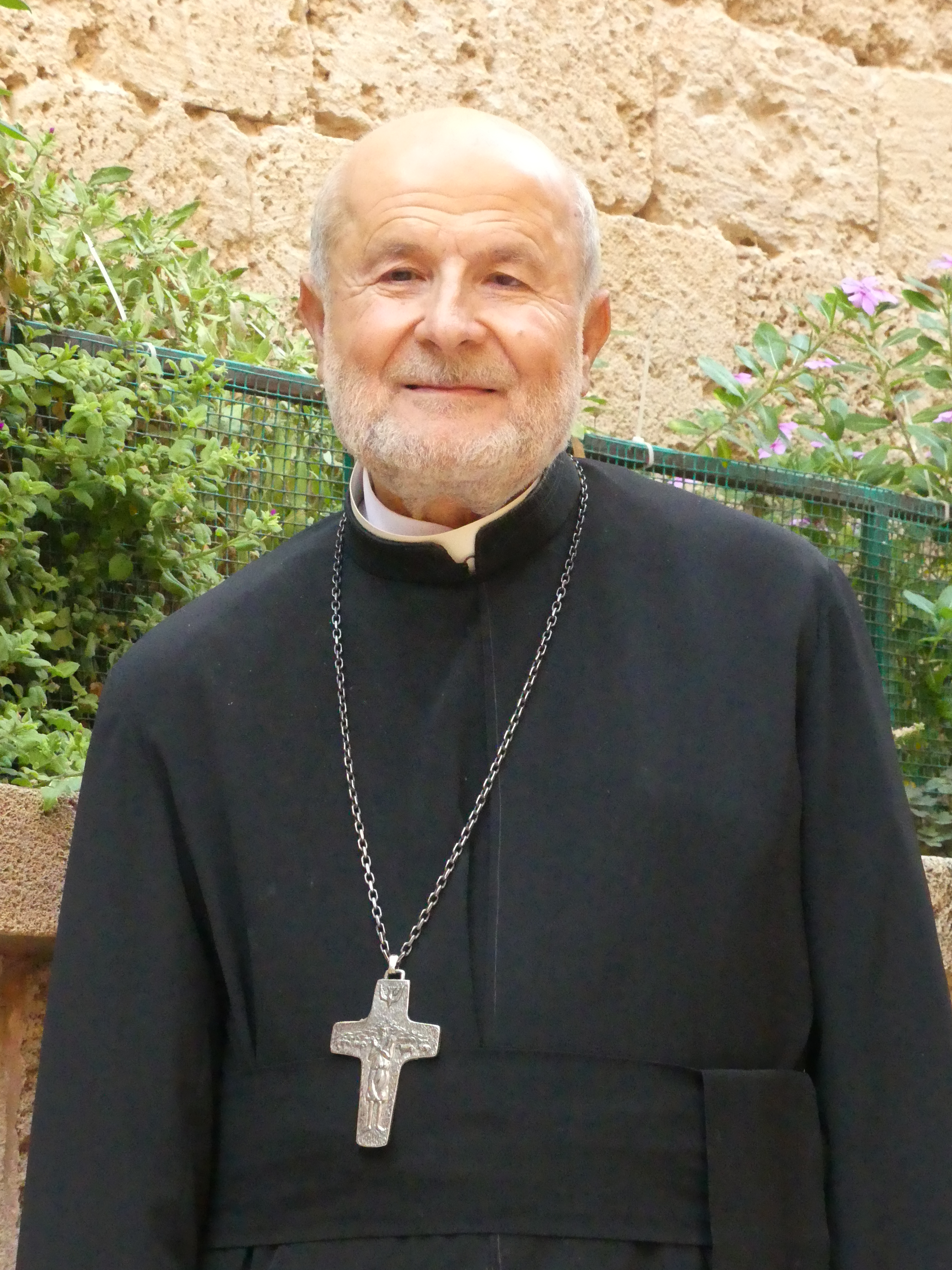 The Maronite Archbishop of Tyre/Sour (Southern Lebanon) Shukrallah Nabil El Hajj (*1943) in front of the Cathedral "Our Lady of the Seas" (Notre Dame Des Mers)